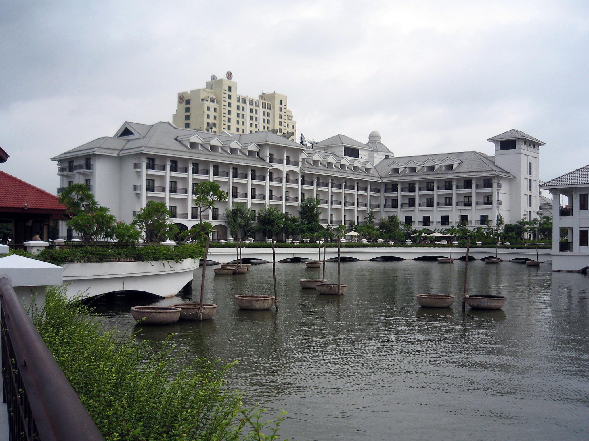 InterContinental Hanoi Westlake Hotel